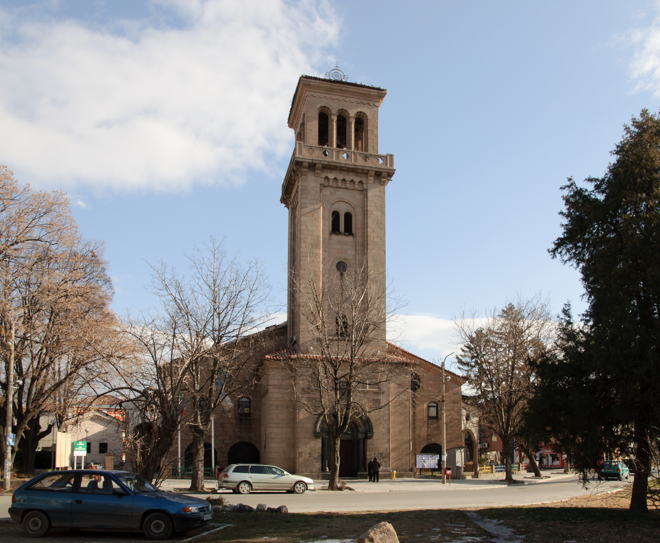 The Dormition of the Theotokos Church in Pazardzhik, Bulgaria.